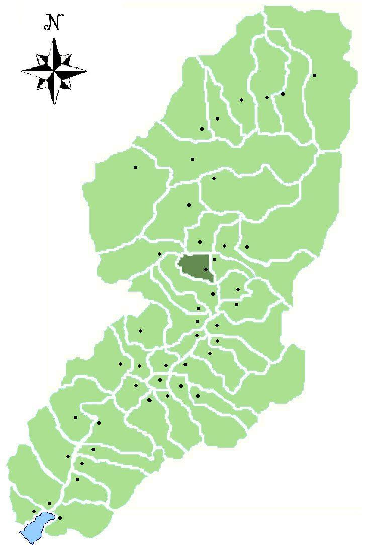 Map of the Comune di Sellero, Valle Camonica